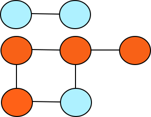 cograph example